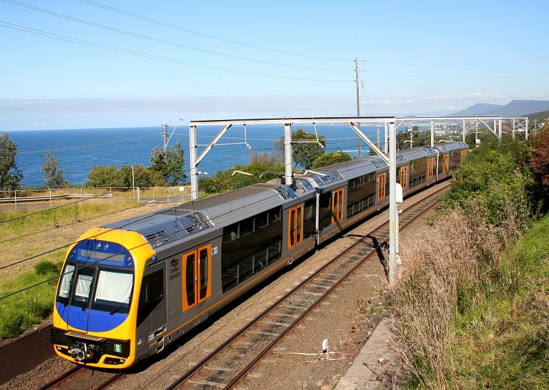 H11 at Scarborough, New South Wales.